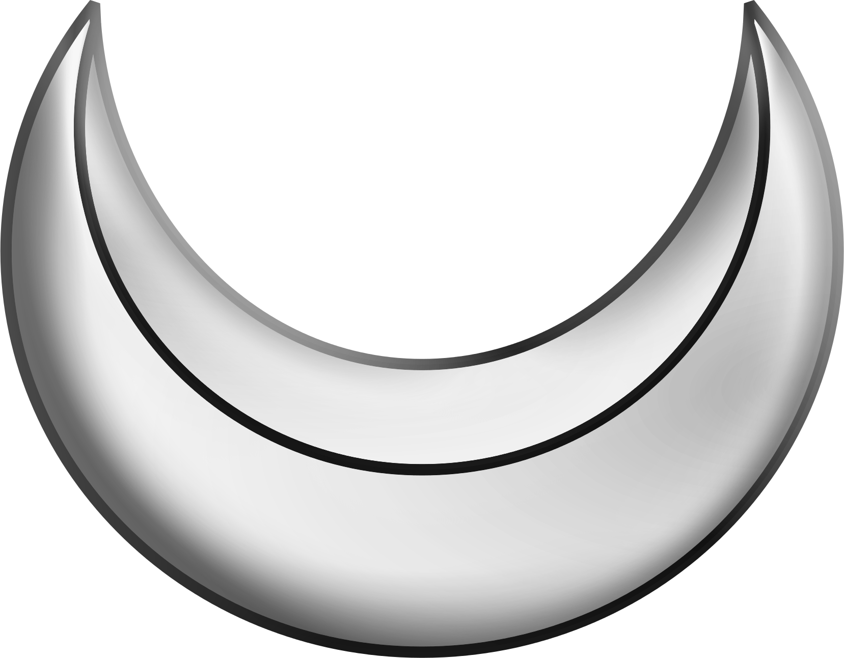 silver crescent